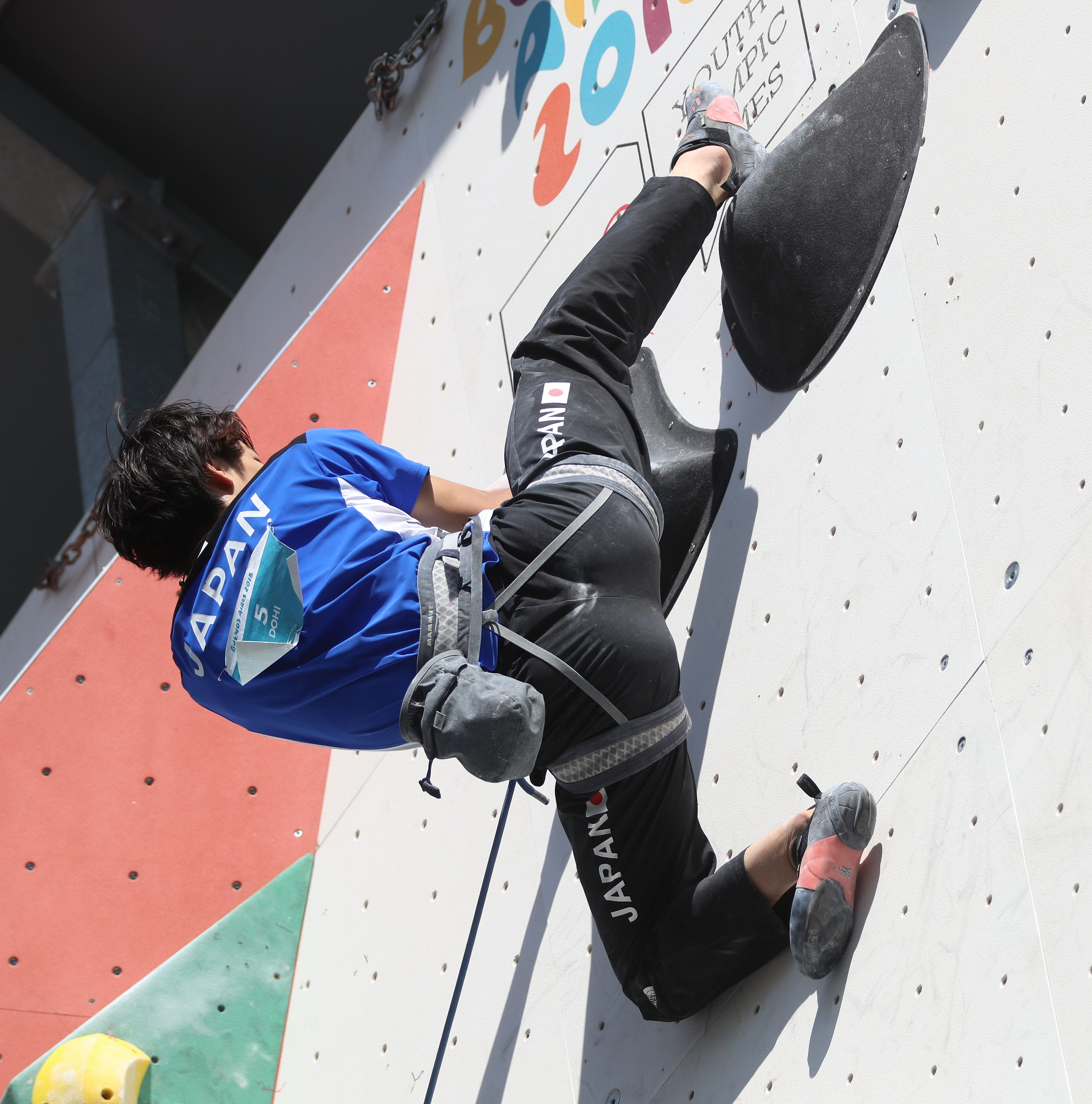 Lead climbing competition in the final of the boys' sport climbing at the 2018 Summer Youth Olympics in Buenos Aires on 10 October 2018.